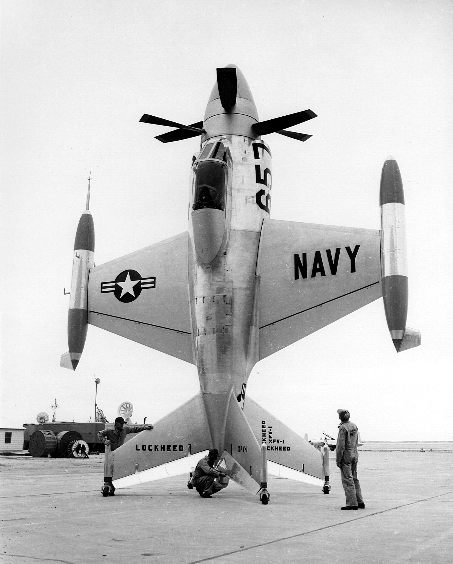 The U.S. Navy Lockheed XFV-1 at Edwards Air Force Base, California (USA).